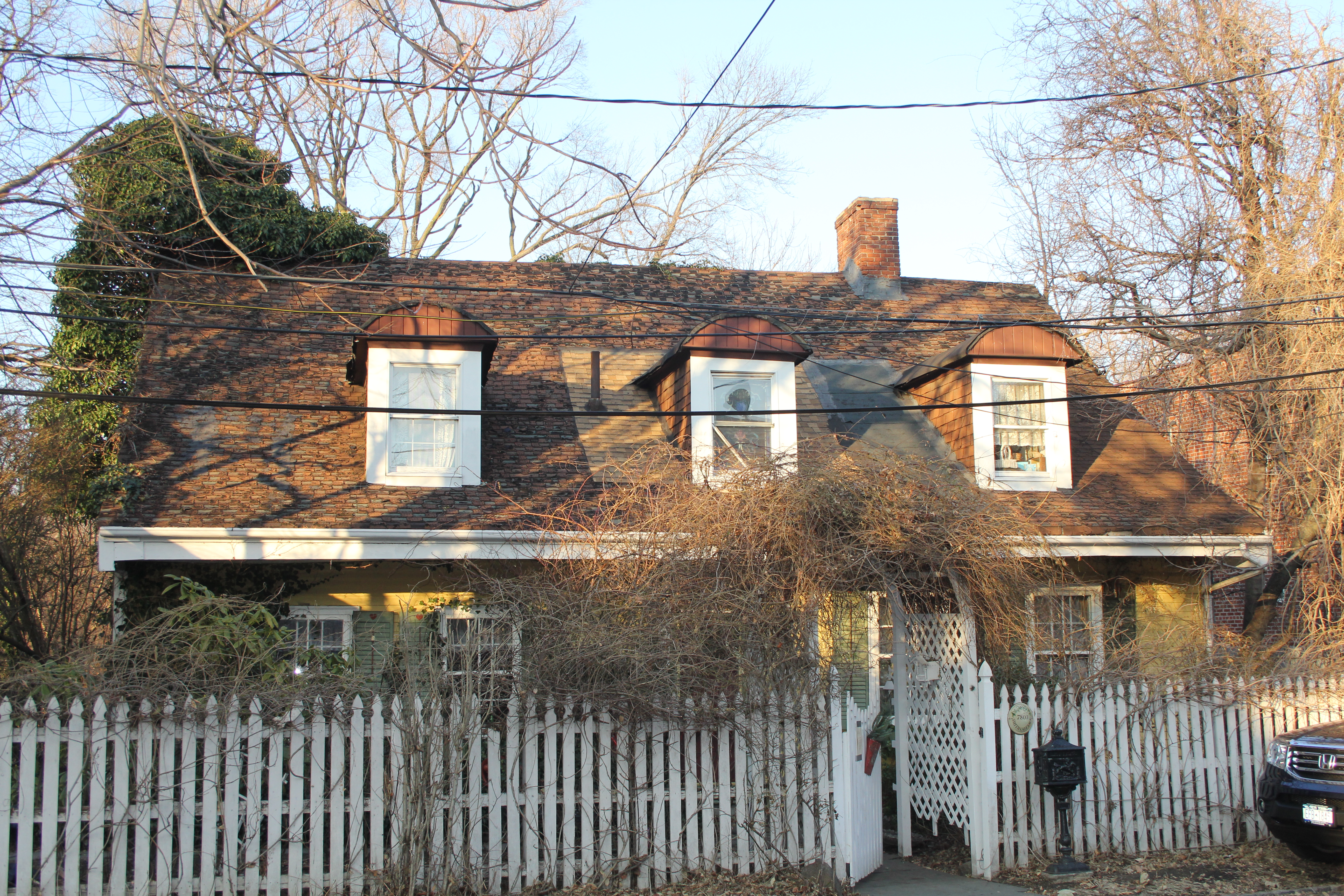 Lent Homestead in Steinway, borough of Queens, New York City. The earliest part of the house was built in 1729. It remains an intact farmhouse in the Dutch Colonial style.